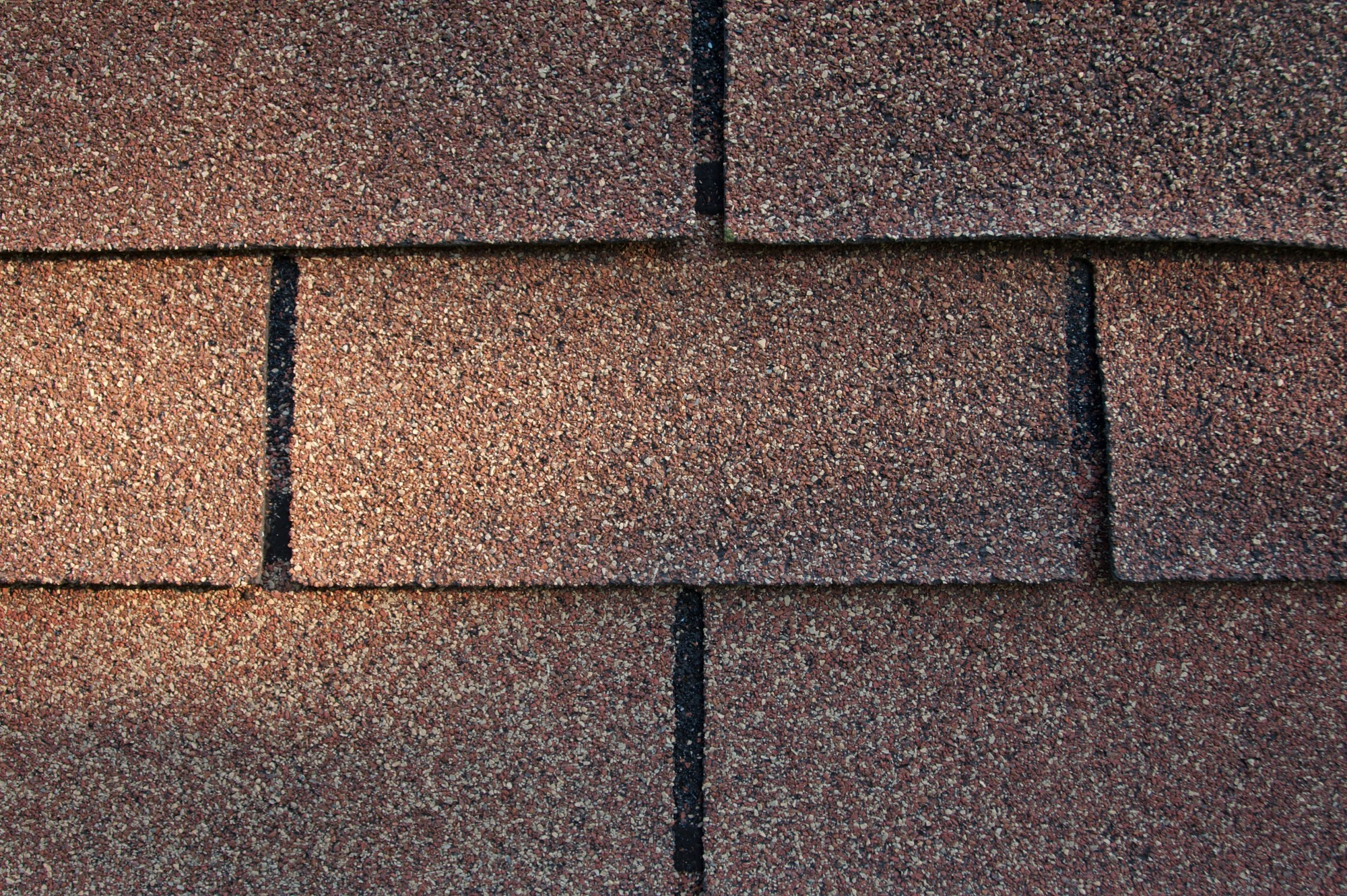 Taken at the UIUC Arboretum in Urbana, Illinois